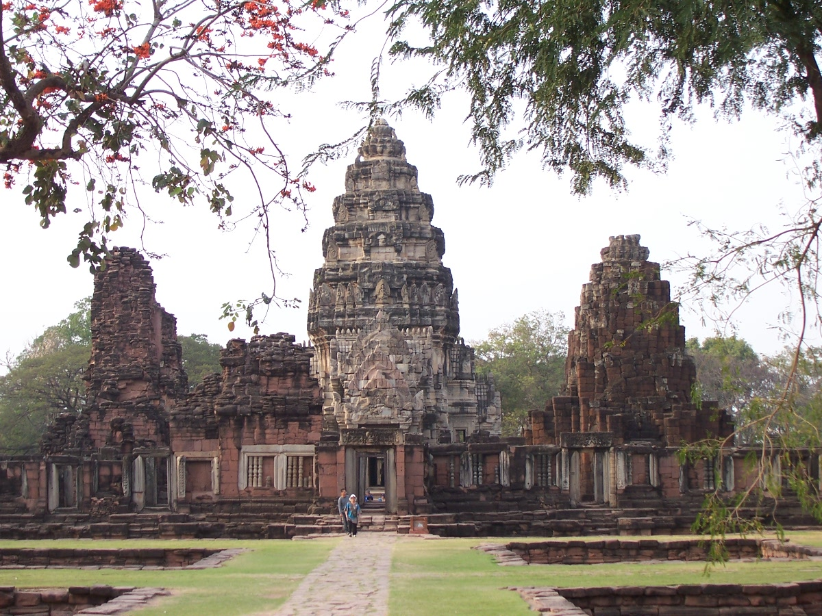 Photo by Bill Bradley. billbeee 11:47, 10 September 2007 (UTC)